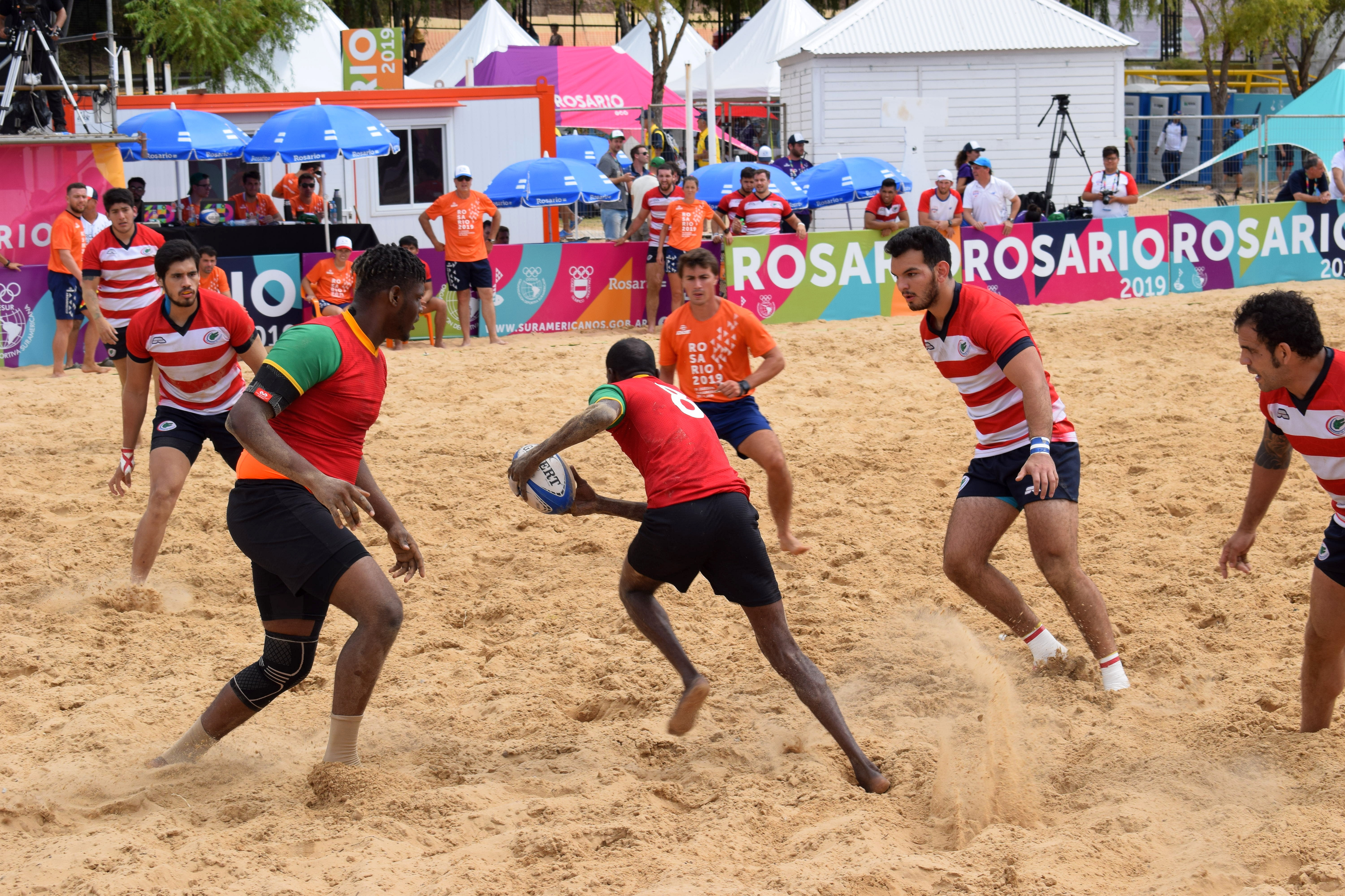 Beach Rugby at the 2019 South American Beach Games. Clasification Round, Guyana vs Paraguay.